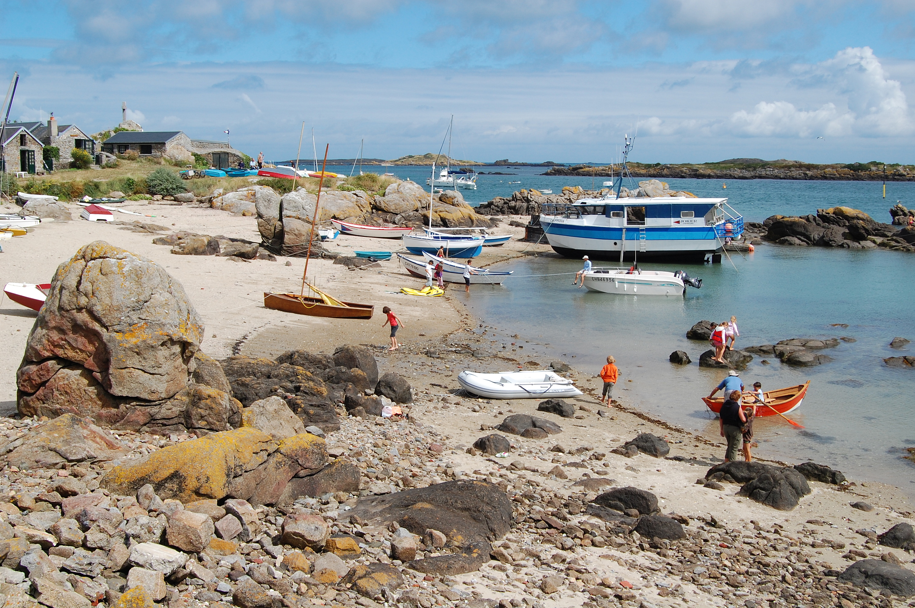 Beach in the Chausey Island, France